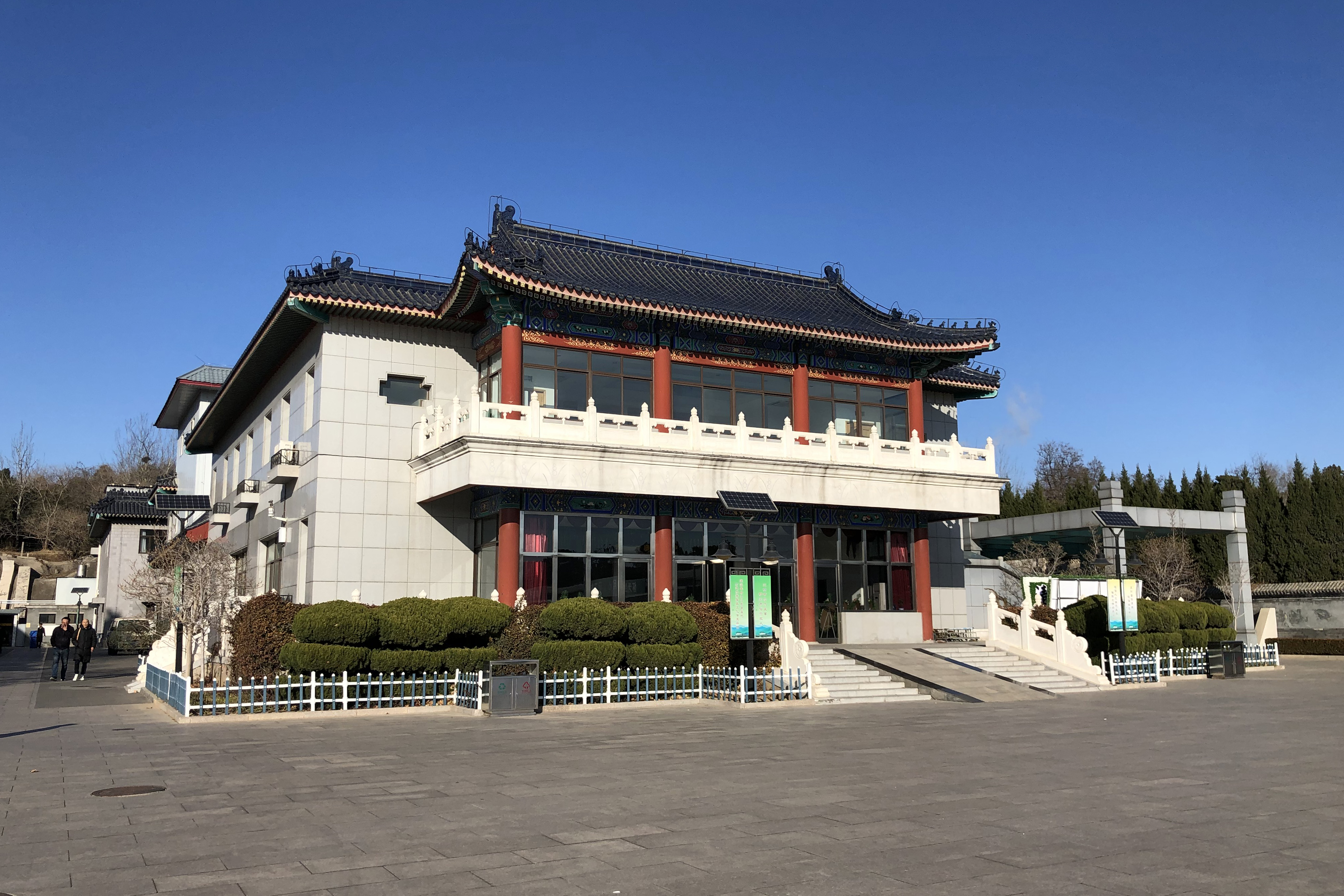 Even state funerals were held here in 2008 before the completion of main hall.